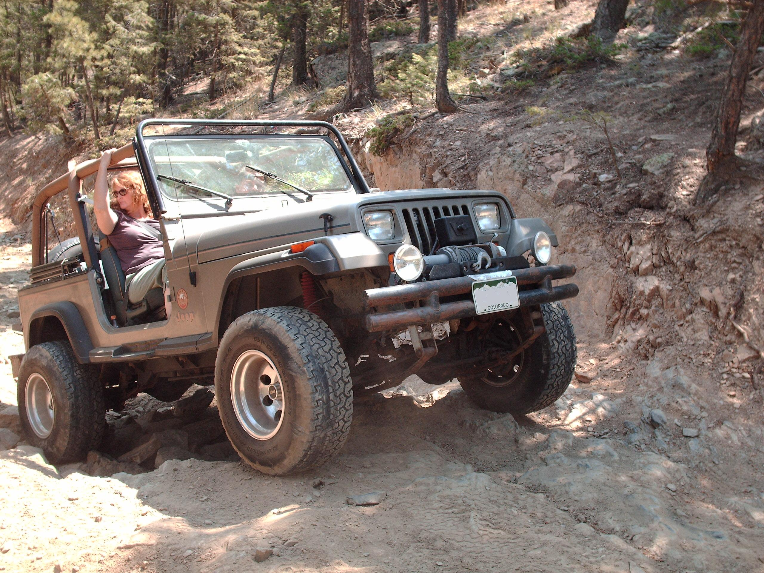 my jeep went wheeling